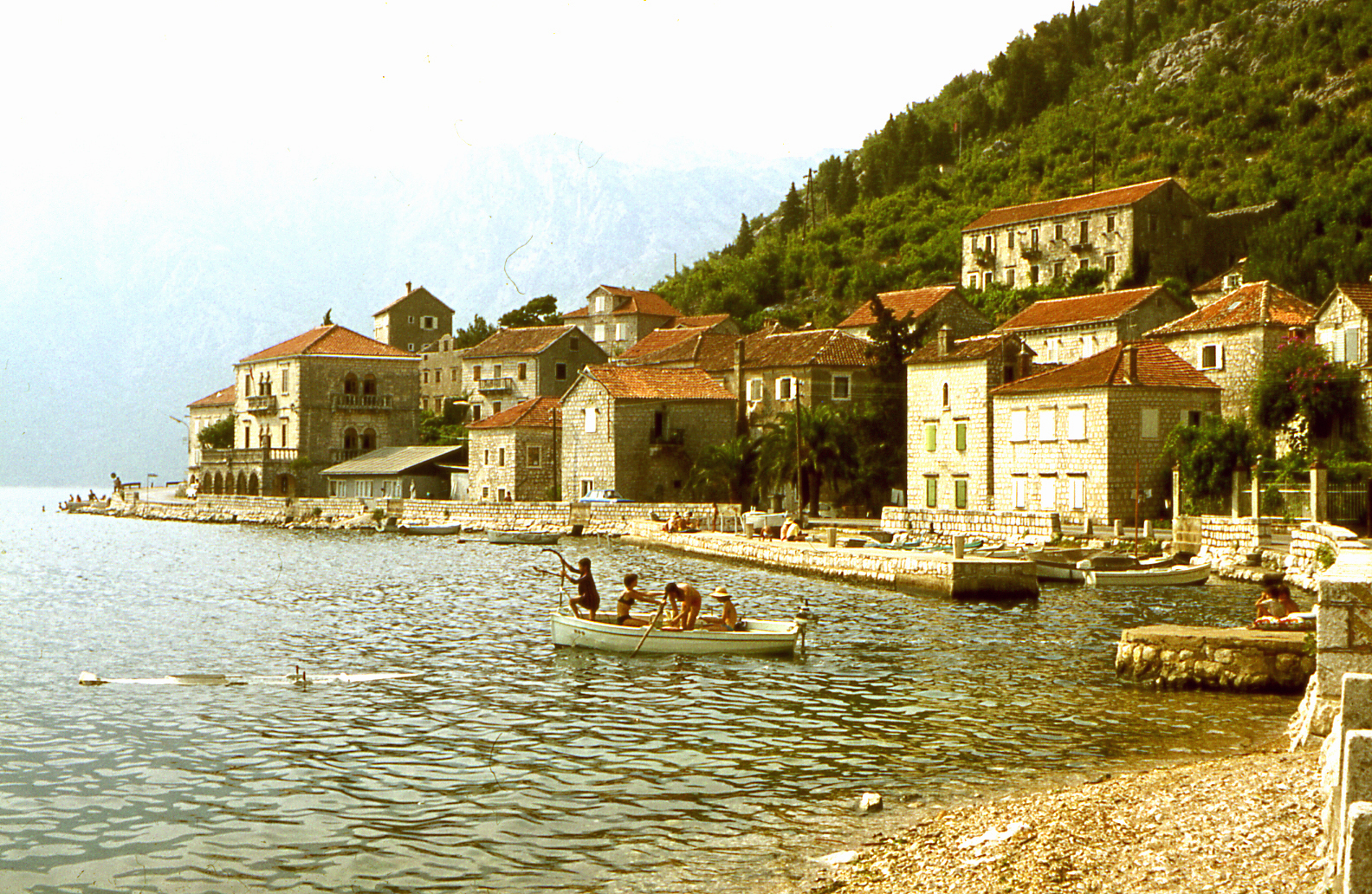 Beach of Perast in 1976